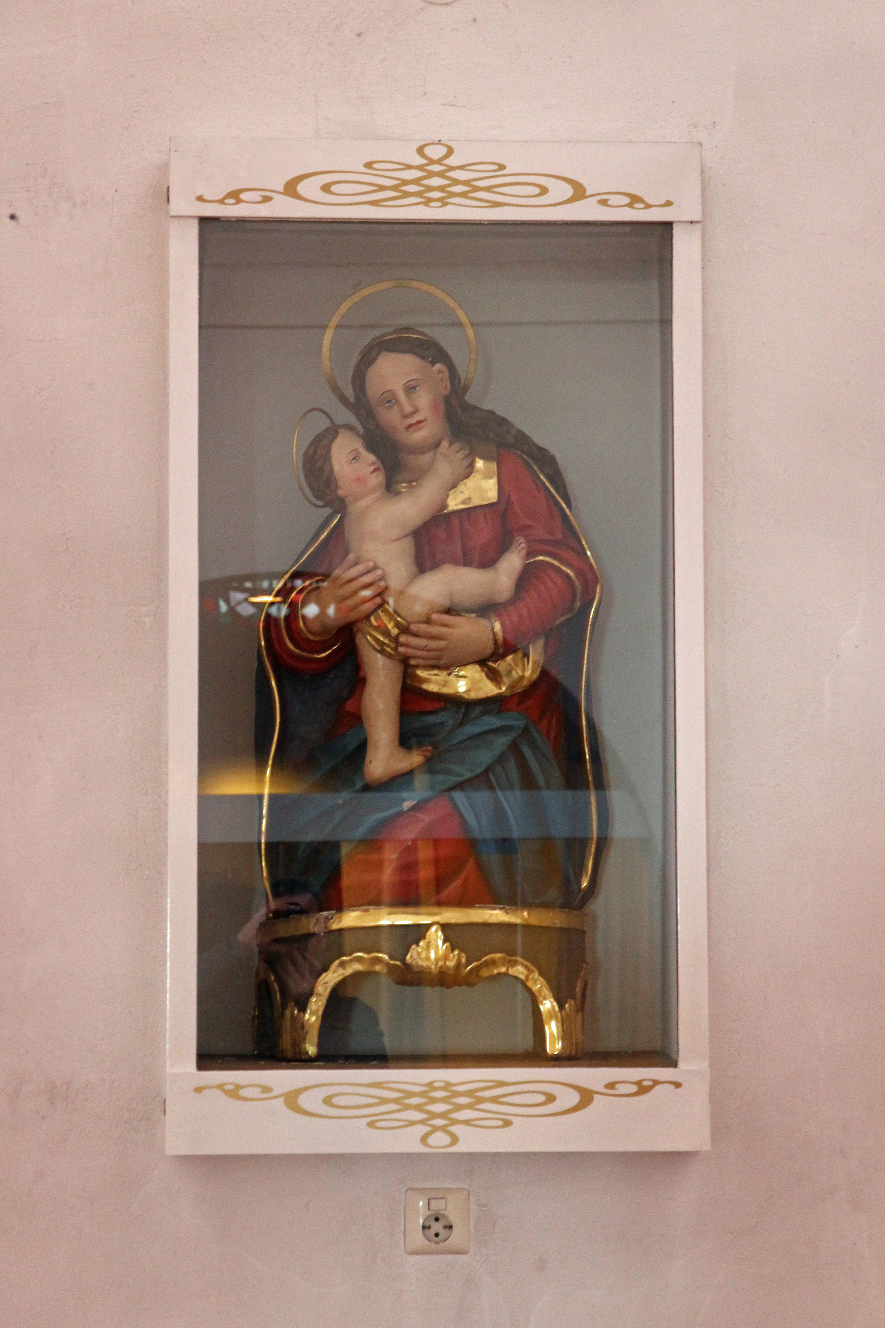 St. Peter church in Koblenz